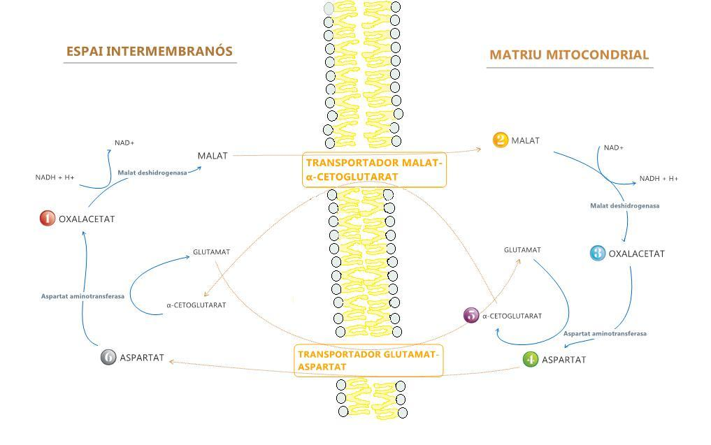 Diagram Illustrating the Malate-Asparate Shuttle Pathway